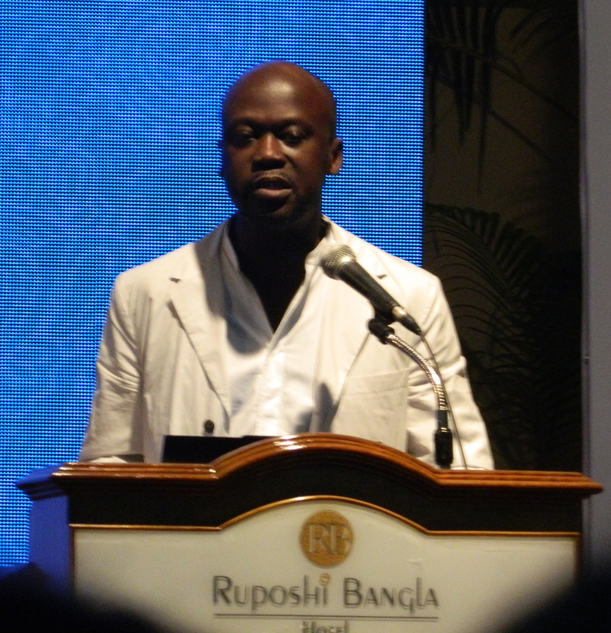 David Adjaye at Conference of Commonwealth Association of Architects in Dhaka, 2013